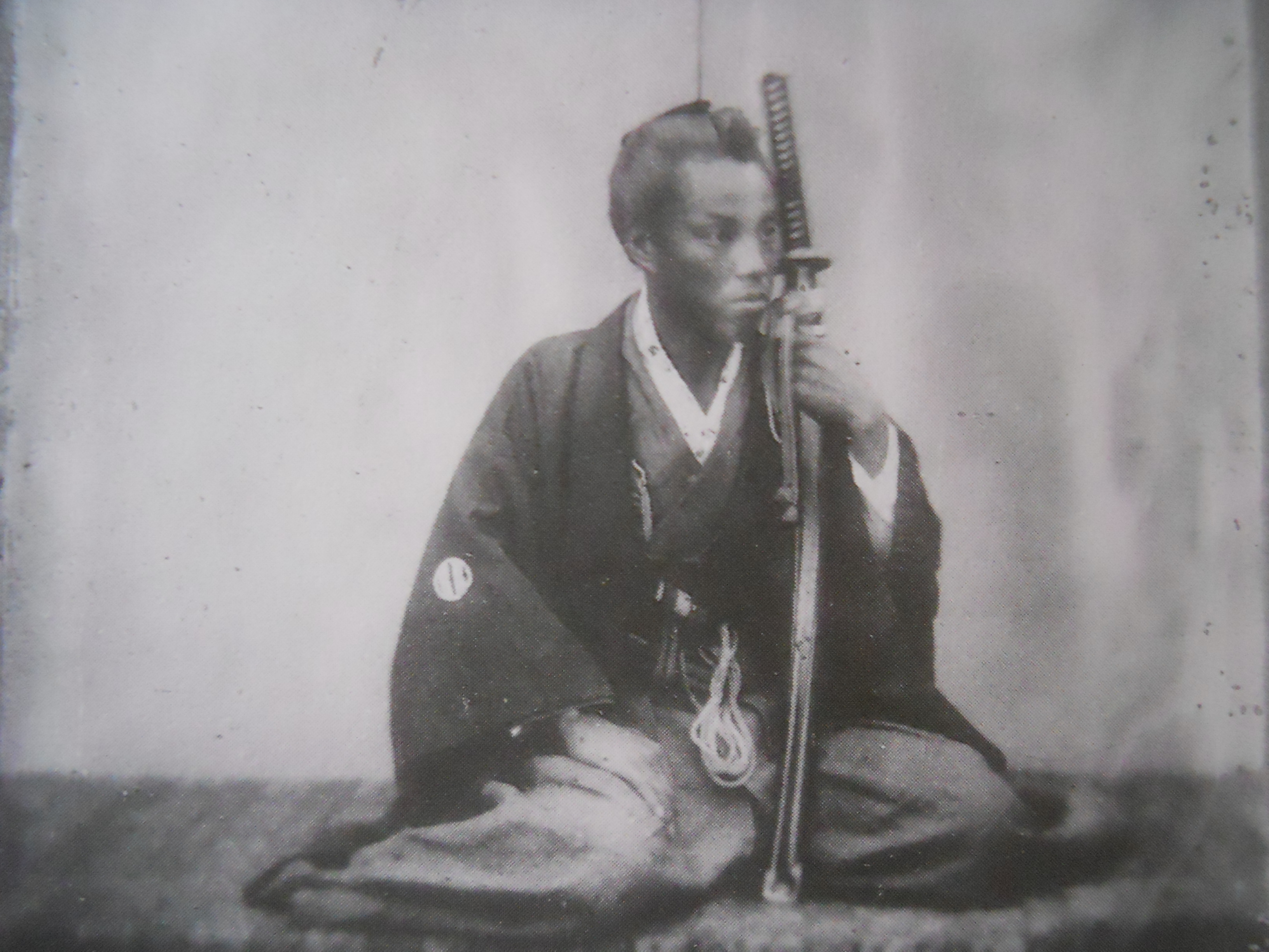 The photo depicts the samurai Yoshida Youtoku. From Bushū province (Musashi domain), Oshi Domain (1868)